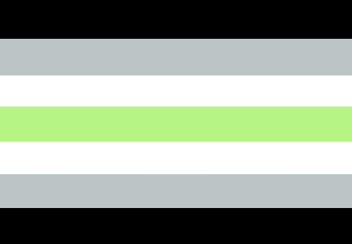 Agender flag.